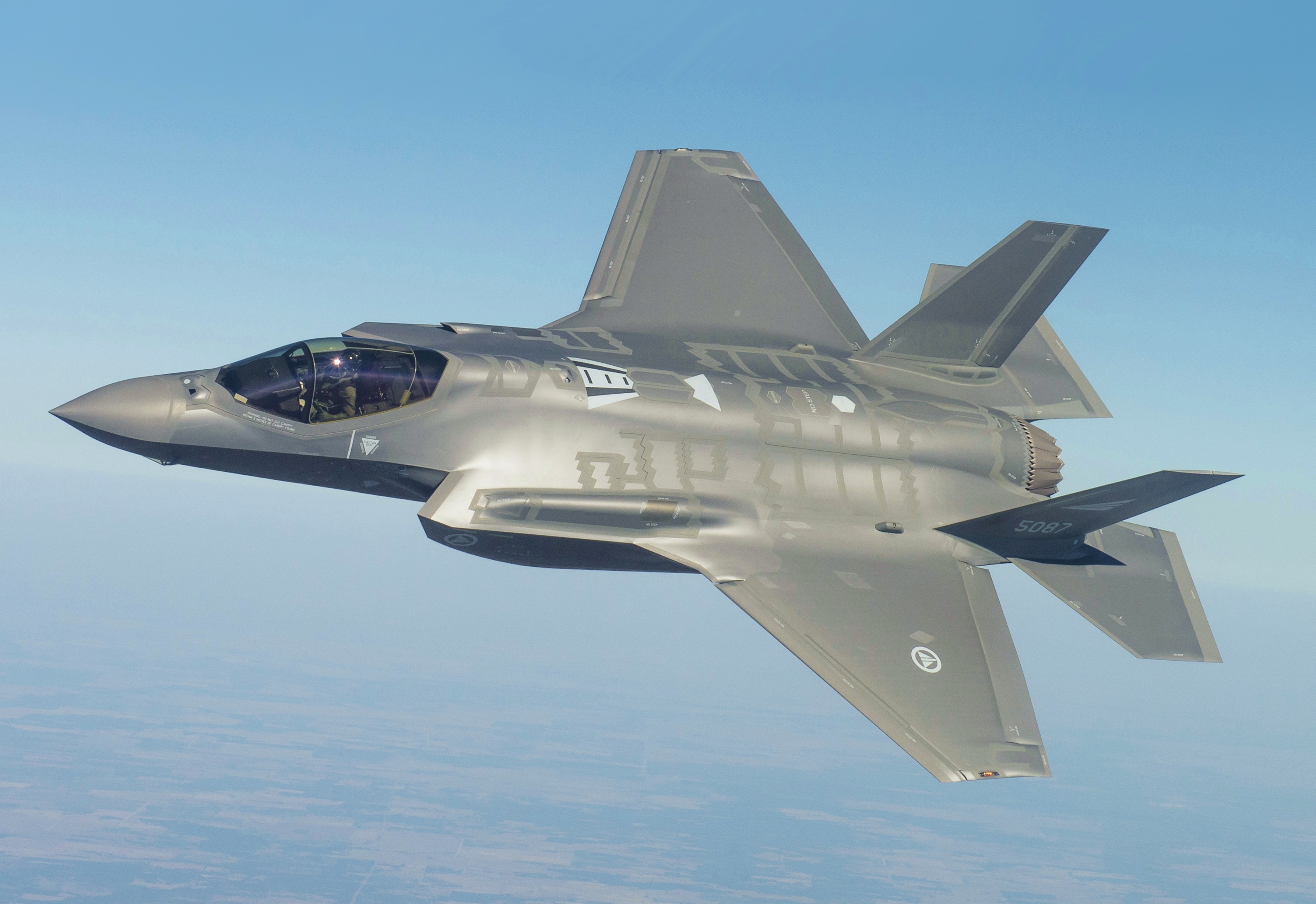 Lockheed Martin Aeronautics Photo by Kaszynski FP150355 Reed Event: AM-01 Gov Flight 1 Customer: Allie Reed Murray, F-35 Communications Location: Fort Worth, TX Pilot: Lt Col. Parzych Date: 10-15-2015 Time: 1030 Image Public Releaseable per Allie Reed Murray, F-35 Communications